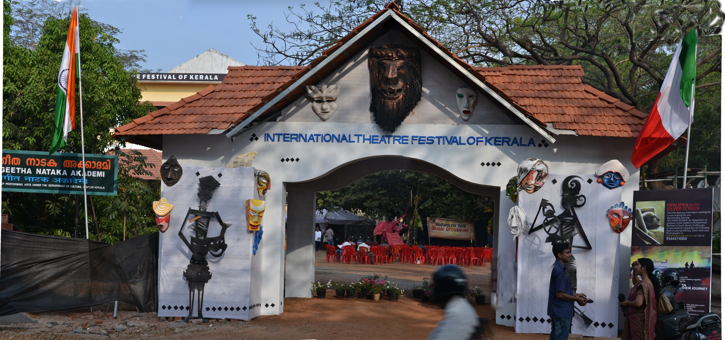 ITFoK decorated gate